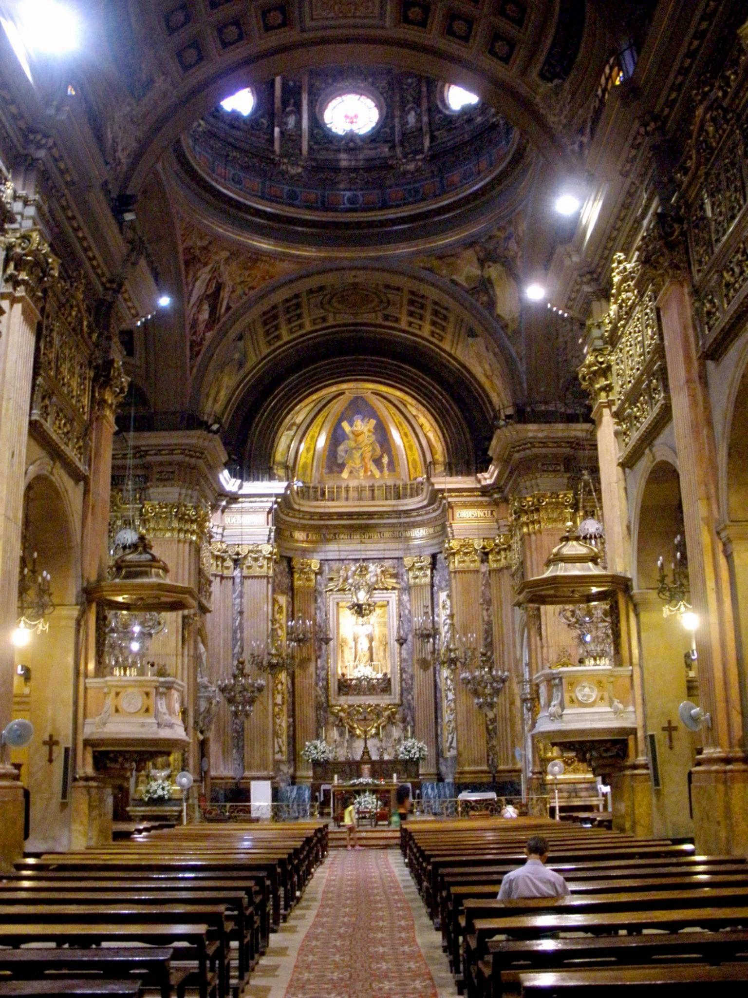 Basílica de la Merced, Barcelona (Cataluña, España)